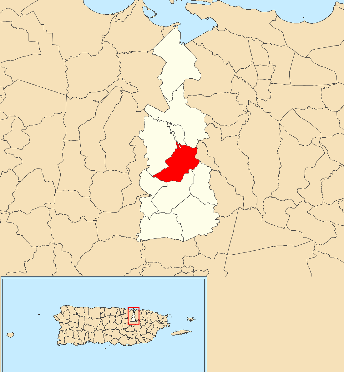 Camarones, Guaynabo, Puerto Rico locator map